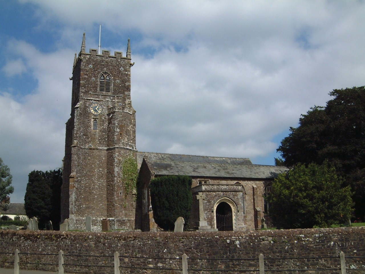 St John's Church, Plymtree, Devon, circa 2000.